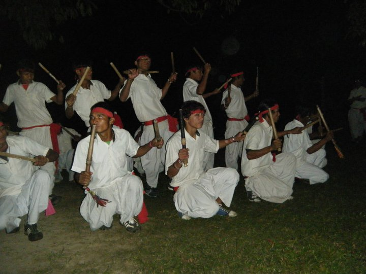 Cultural program of locale Tharu community